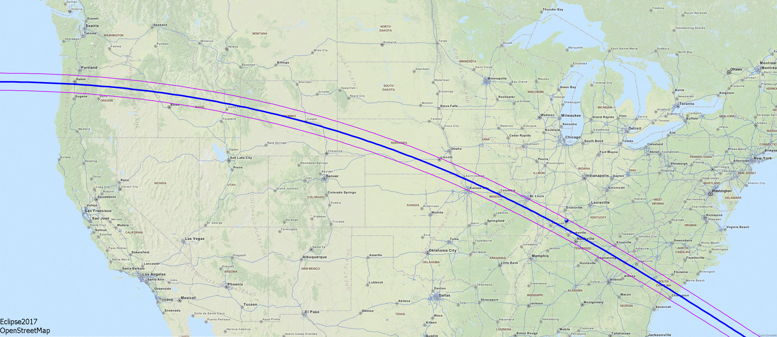 Map of the solar eclipse 2017 USA, created with Eclipse 2017 Android App, Geodata from OpenStreetMap Zoom 4